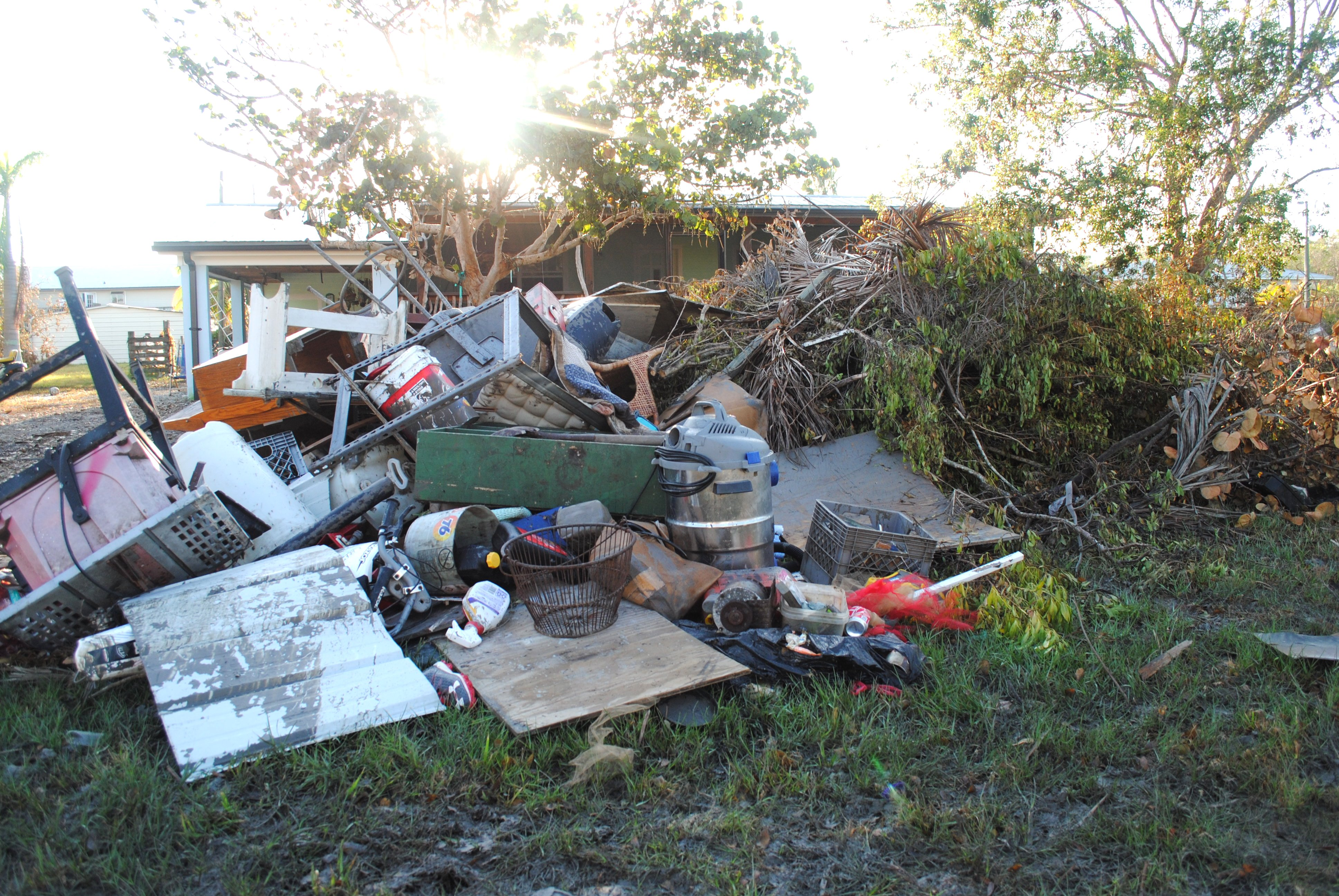 Most houses in Everglades City stood up to Hurricane Irma’s winds, but the storm surge flooded many of them and ruined almost everything inside. Residents hauled their sodden belongings out to the street, and most neighborhood roads were lined with piles like this. Photo by Phil Kloer, USFWS.